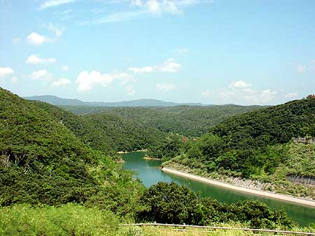 Yanbaru forest and Mount Yonaha seen at Fukuji Dam, Higashi Village, Okinawa